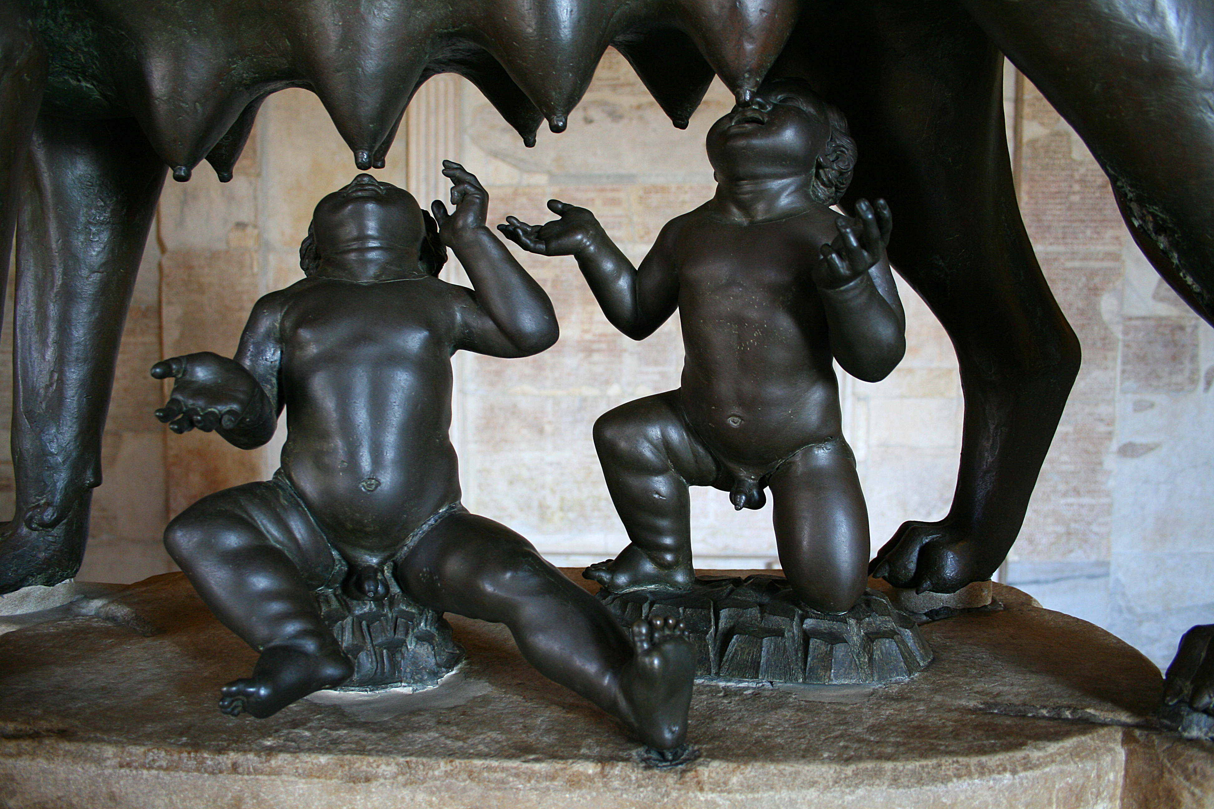 Lupa Capitolina: she-wolf with Romulus and Remus. Bronze, 12th century AD[1], 5th century BC (the twins are a 15th-century addition).